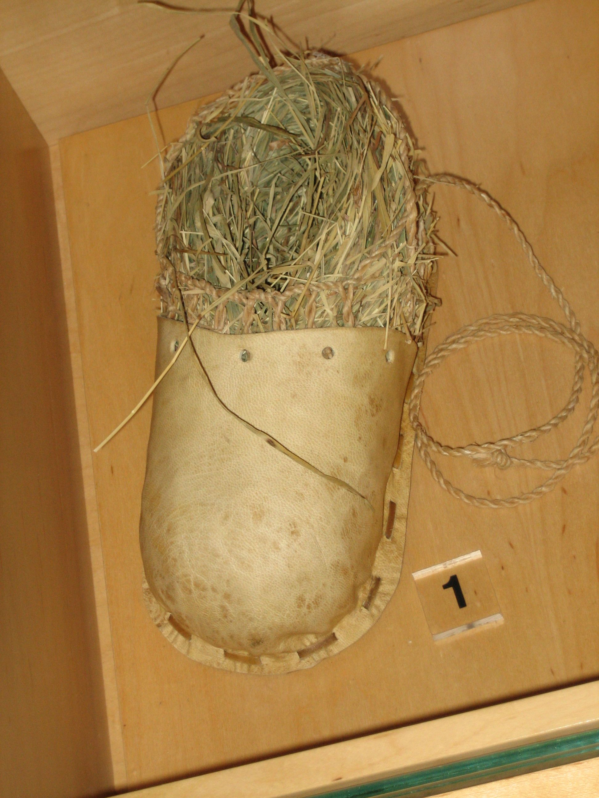 A shoe as worn in prehistoric times, BATA shoe museum. I suppose this is a modern reproduction but the flickr uploader didn't say one way or the other.